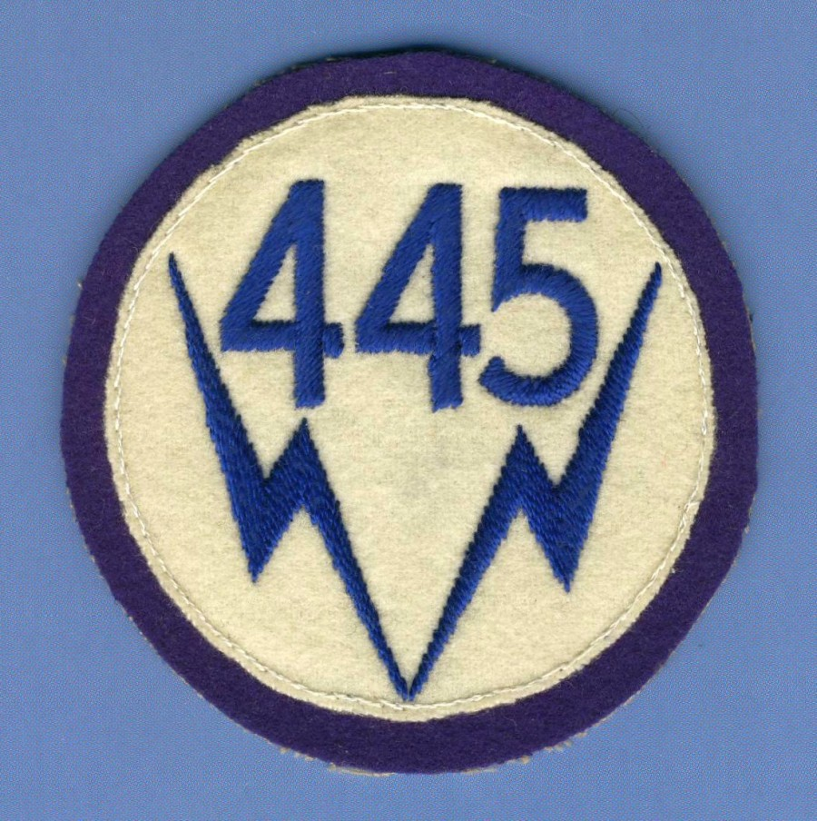 This felt shoulder patch was manufactured by Crest Craft Ltd of Saskatoon and used by RCAF pilots and crew who flew with 445 Squadron in the era of 1953 to 1962. Several variations of the backing material can be found, some which show either the yellow label or residue of Crest Craft.